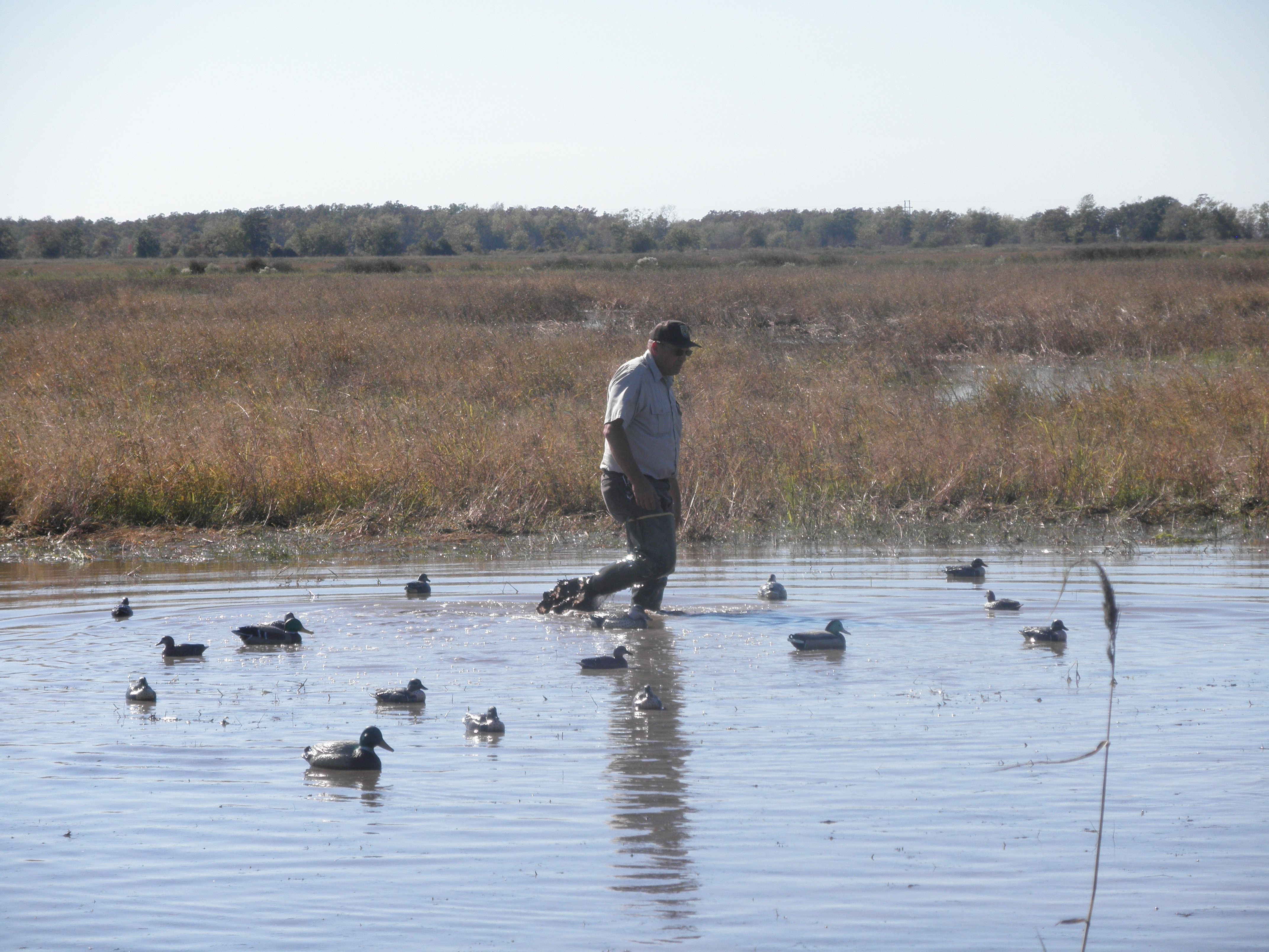 February 15, 2012- Bell City, Louisiana: Placing out duck and goose decoys. Photo by Corey Douglas